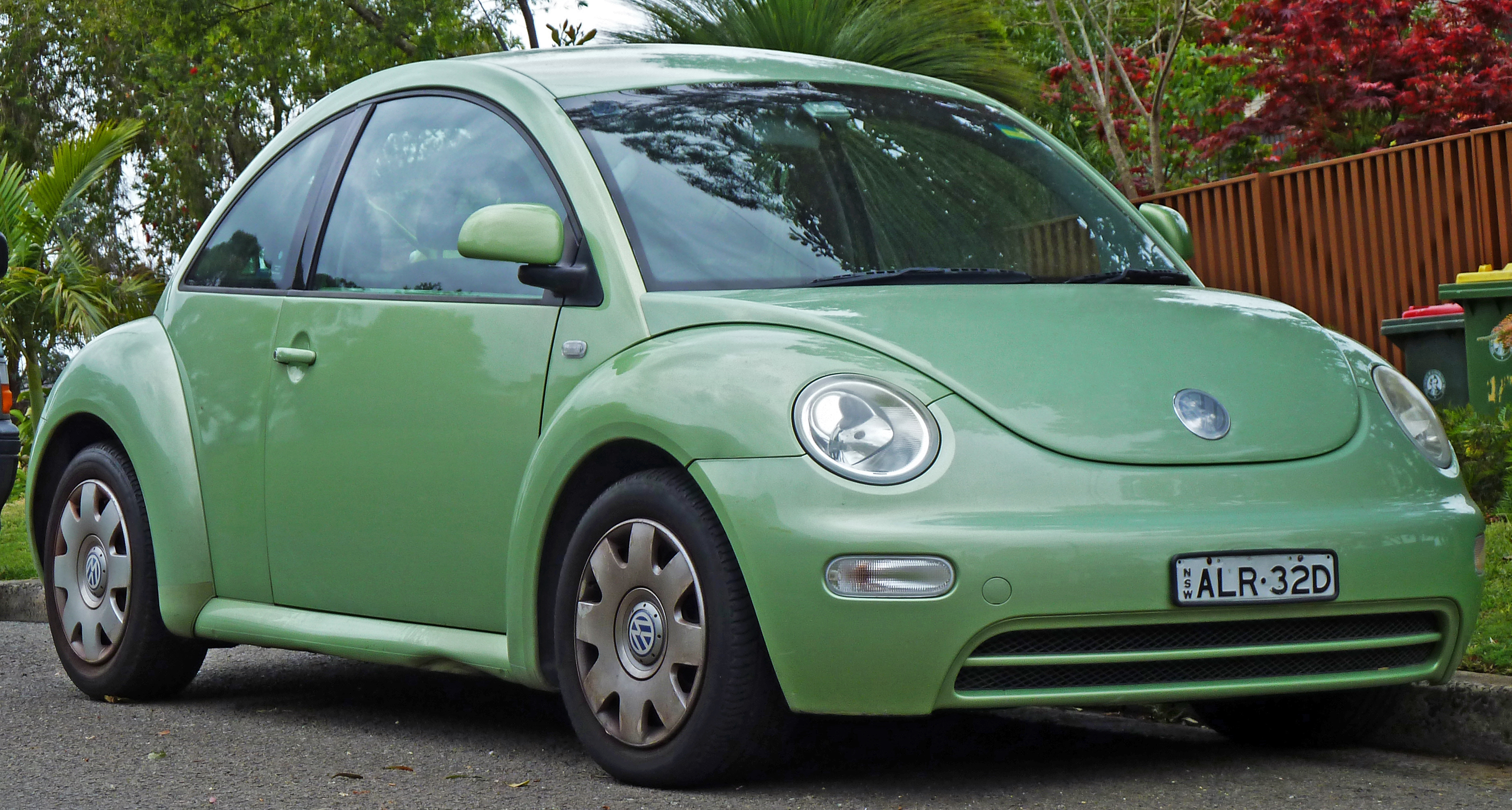 2002 Volkswagen New Beetle (9C MY02.5) 2.0 coupe. Photographed in Gymea Bay, New South Wales, Australia.